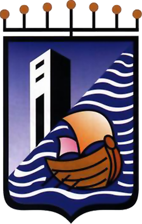 Coat of Arms of the city of Kiryat Motzkin